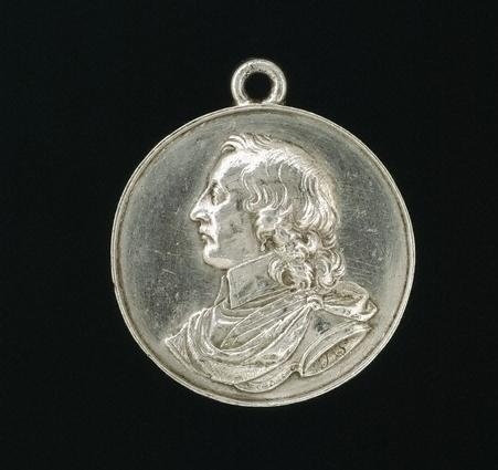 Medal, 1653, Thomas Simon V&A Museum no. 815-1904 Techniques - Struck or cast silver Place - London, England Dimensions - Height 3.8 cm (including loop), Depth 0.25 cm, Diameter 3.3 cm Object Type - Portrait medallions were produced in considerable numbers for both sides during the Civil War. They could be worn to show loyalty, and may also have been given as rewards. People - This medal portrays Sir James Harrington (b.1609), a Member of Parliament for the county of Rutland. He commanded part of the Parliamentary army at the battle of Newbury in 1644, an event recorded on the reverse of the medal. He is portrayed on the obverse (front), long-haired and wearing armour, in profile facing left. The reverse is inscribed with his offices and the date of the battle. Abraham Simon (1617-1692) and his brother Thomas (1618-1665) were the most distinguished native-born medallists working in 17th-century England. They were also responsible for coinage minted under the Commonwealth. In this medal, the portrait was modelled in wax by Abraham and then cast in silver by Thomas. Although admired by Thomas Cromwell, who described him as 'ingenious and worthy of incouragement', Thomas Simon later worked for Charles II at the Royal Mint. Materials & Making - The medal was either 'struck' or cast. Struck medals were produced from metal dies engraved with the design in reverse. A flat disc was placed between the dies, which were then compressed, so that the design was reproduced on the metal. This technique meant that a high number of medals could be made using the same dies over and over, whereas the technique of casting medals was generally more complex and therefore usually suitable only for smaller numbers.